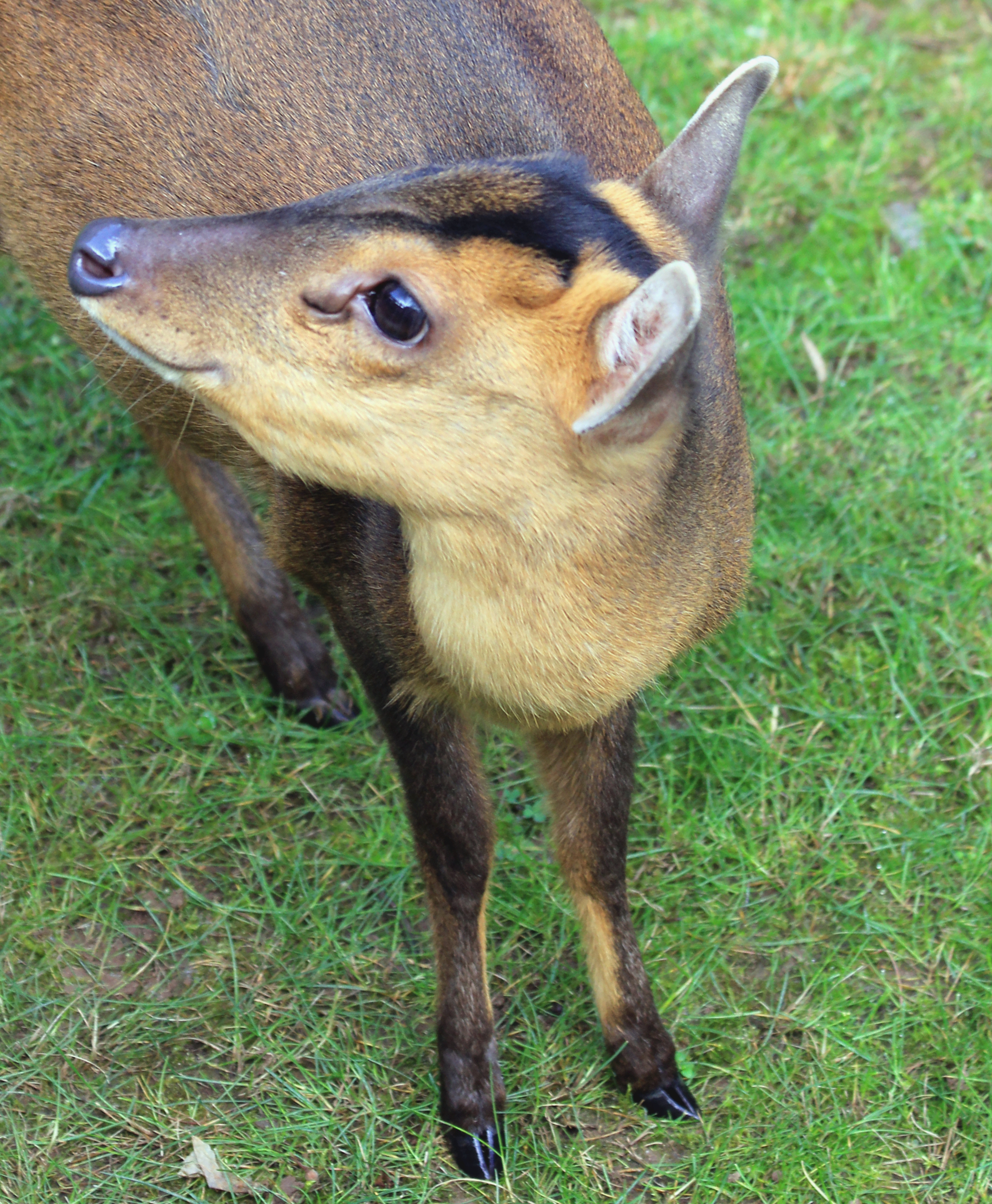 Reeves's Muntjac (Muntiacus reevesi) in Prague Zoo, Czech Republic